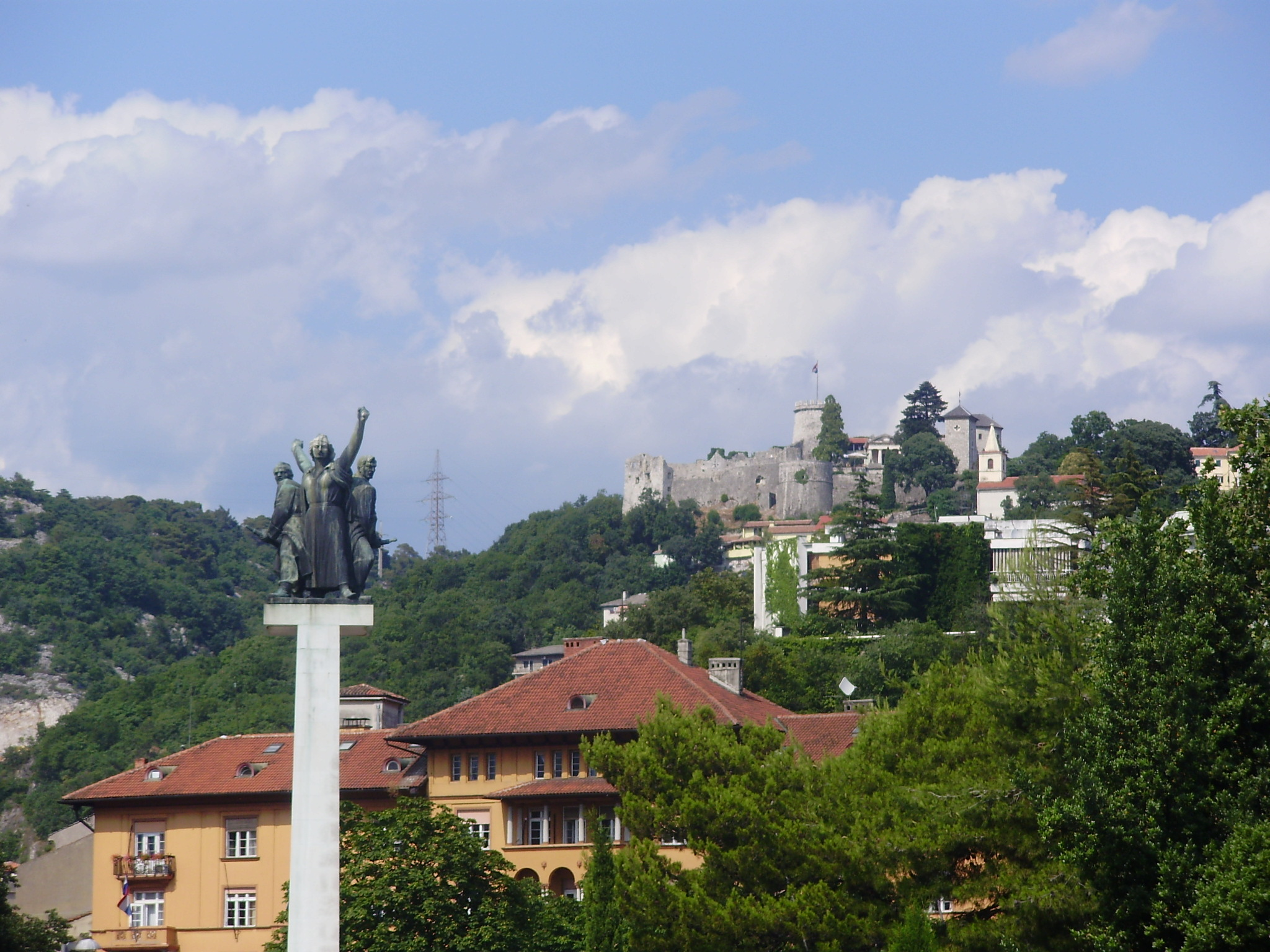 Rijeka, Trsat